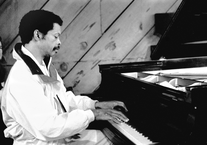 Don Pullen, Half Moon Bay CA 6/13/88 Uploaded 2010 Brian McMillen